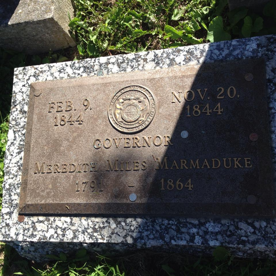 Tombstone of former Missouri Governor Meridith M. Marmaduke. Located in Sappington Cemetery State Historic Site near Arrrow Rock, Missouri